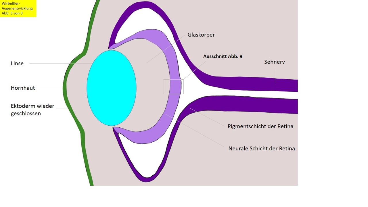 Augenentwicklung